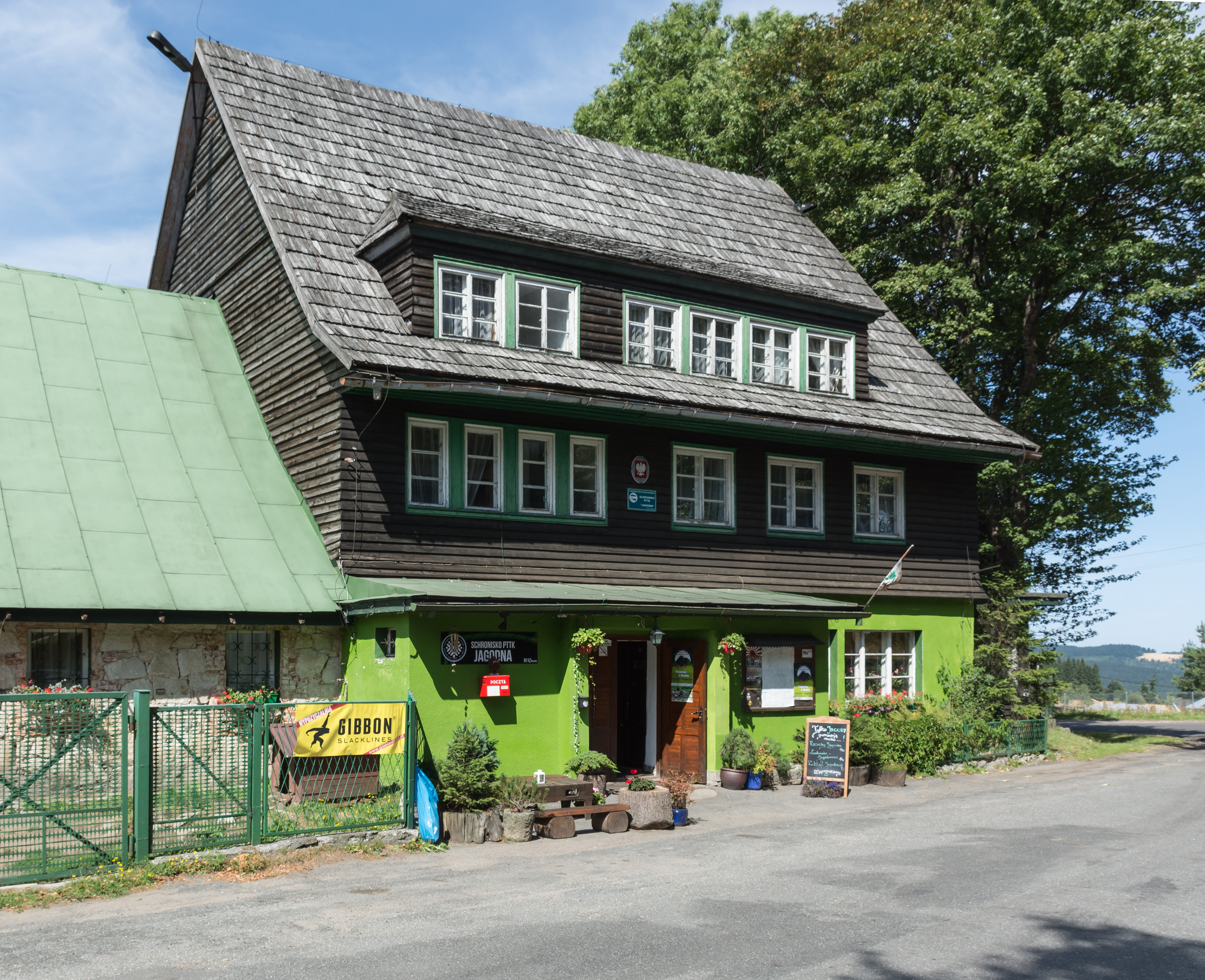 Jagodna Hostel